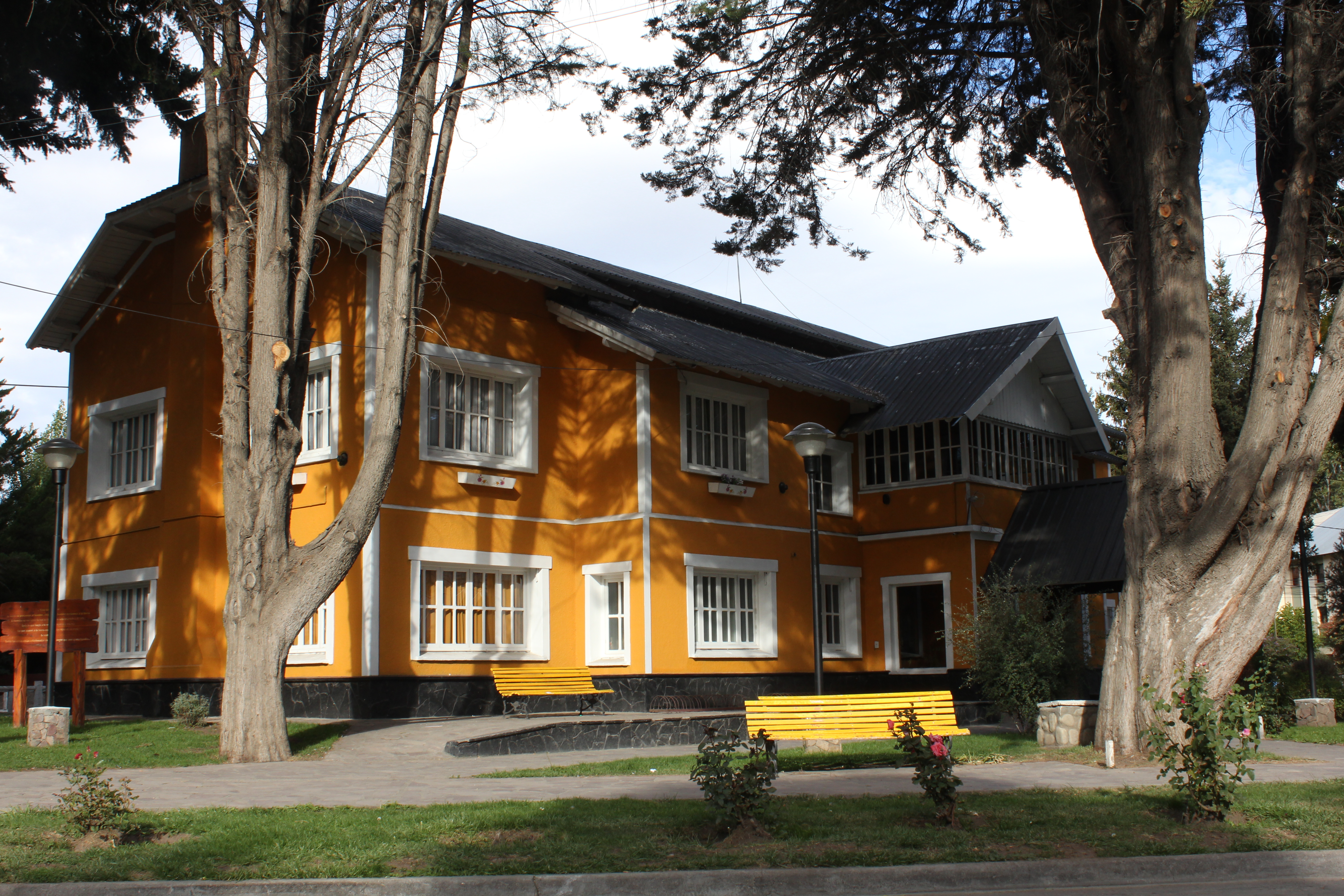 municipalidad de junin de los andes